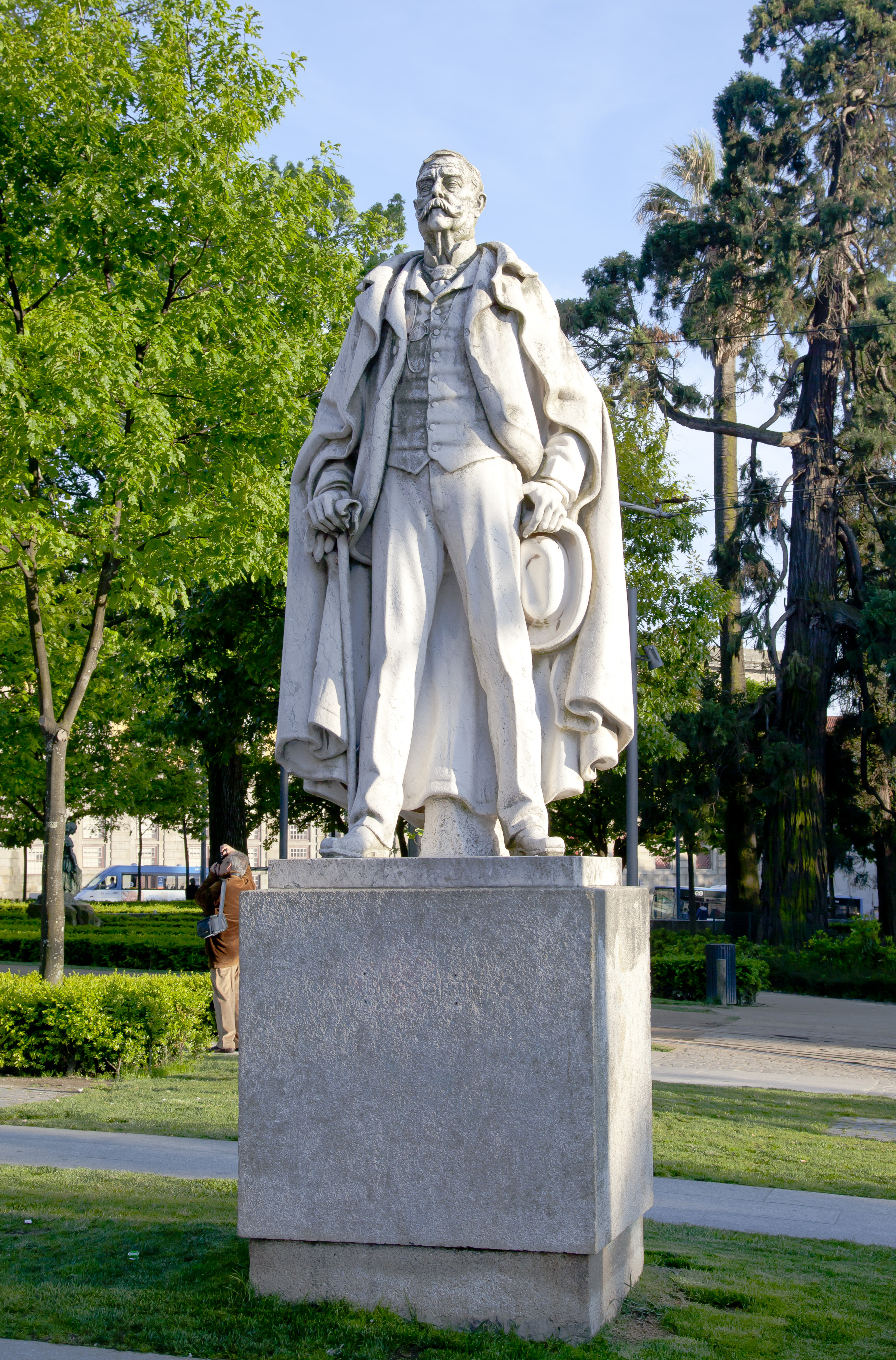 Statue of Ramalho Ortigão, Jardim da Cordoaria, Porto, Portugal